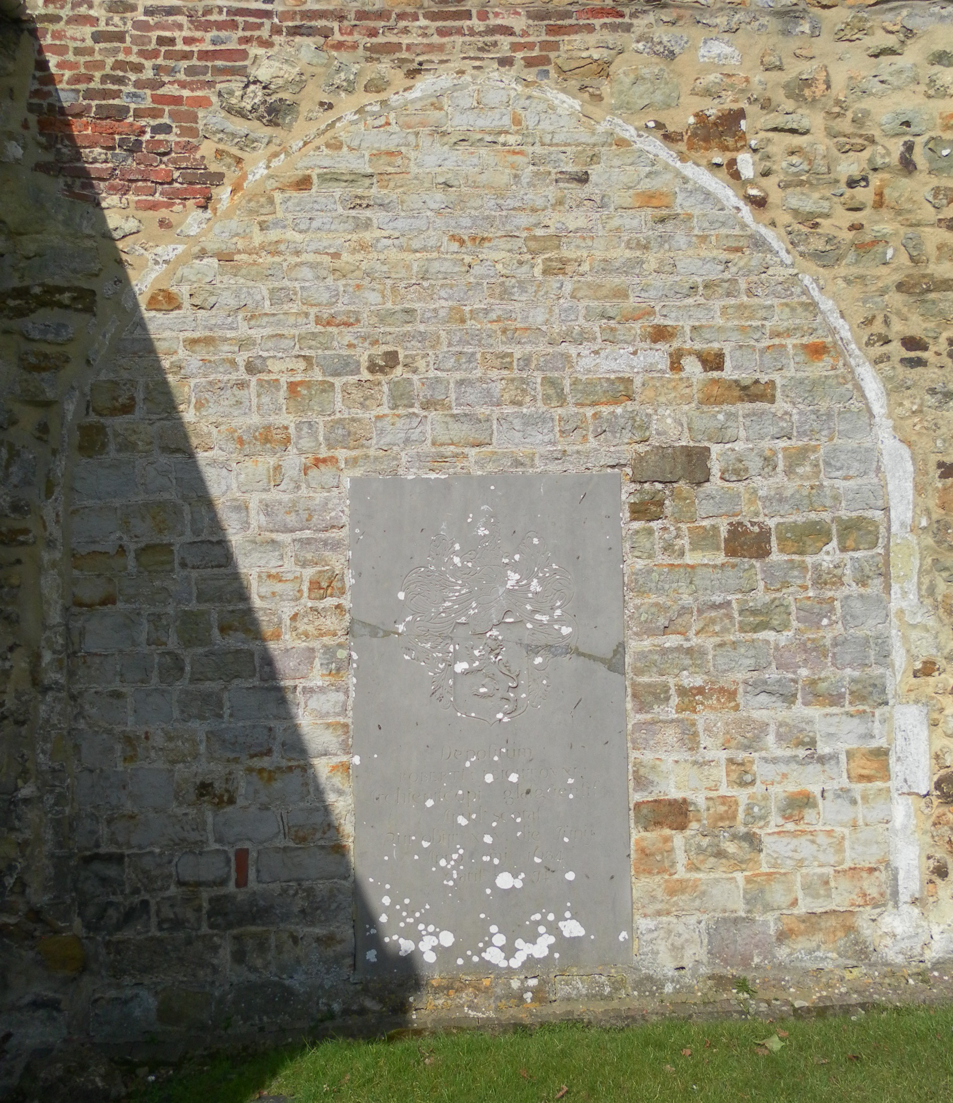 Blocked arch in the south wall of the chancel of St Giles' parish church, Church Lane, Horsted Keynes, West Sussex, England. The arch was inserted in the 14th century for a chantry chapel, which has since been demolished.